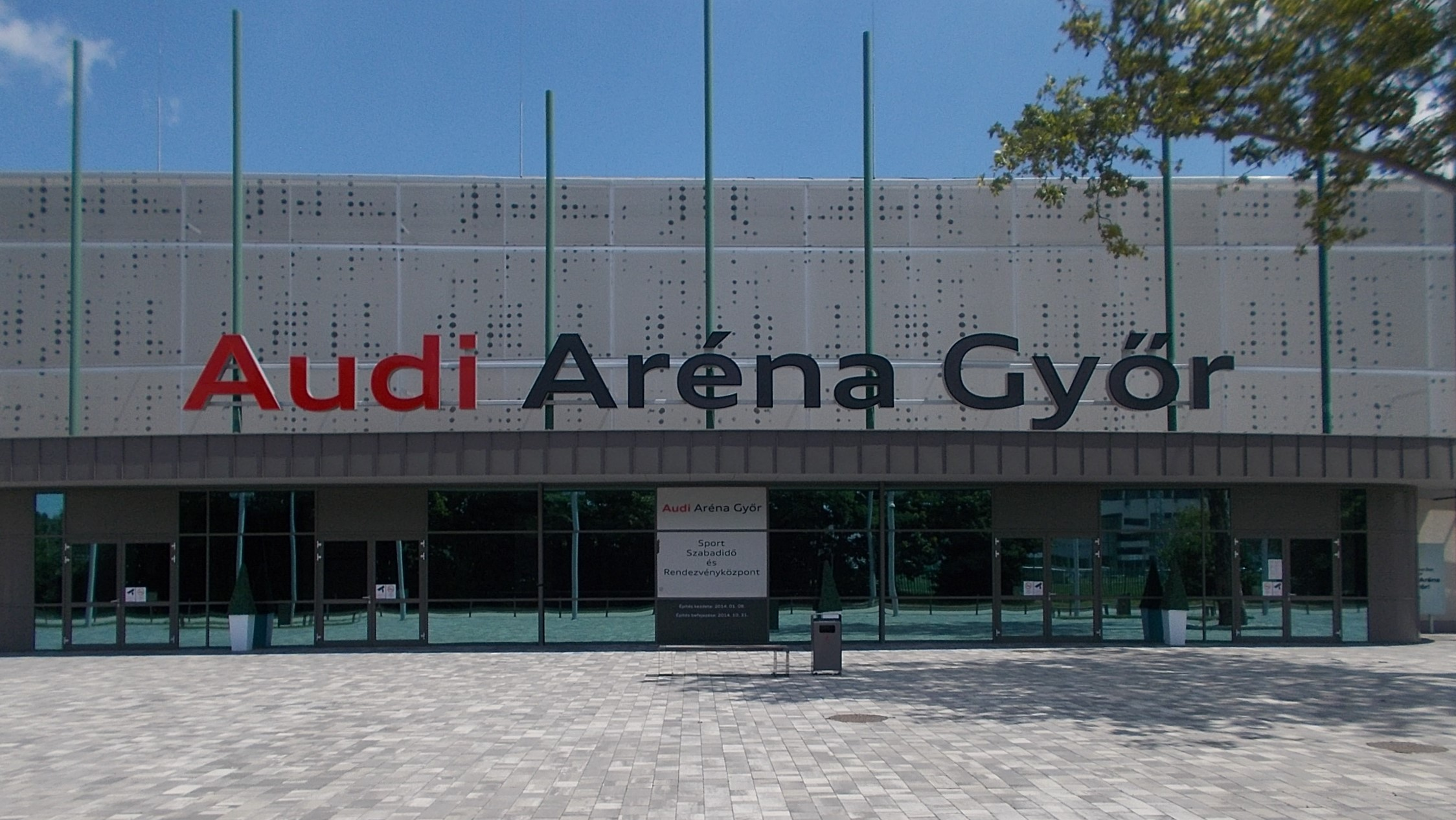 Audi Aréna built in 2014 planned by János Sándor (Teatro Architect Studio). - Tóth László street, Gyárváros neighborhood, Győr, Győr-Moson-Sopron County, Hungary.